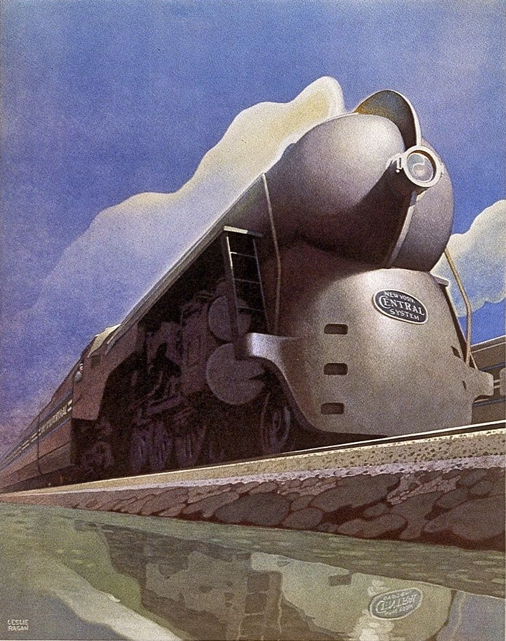 Dreyfuss styled J-3a Hudson locomotive for streamlined 20th Century Limited trainset as of 1938